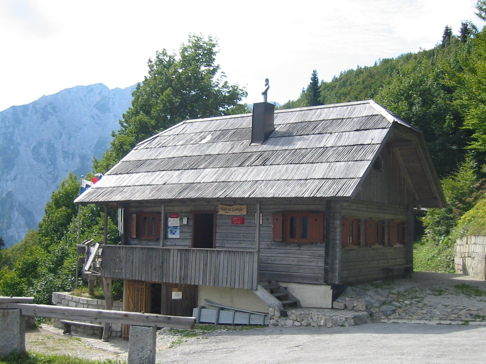 Alpine hut at Ljubelj (Loibl) pass - border Slovenia/Austria.